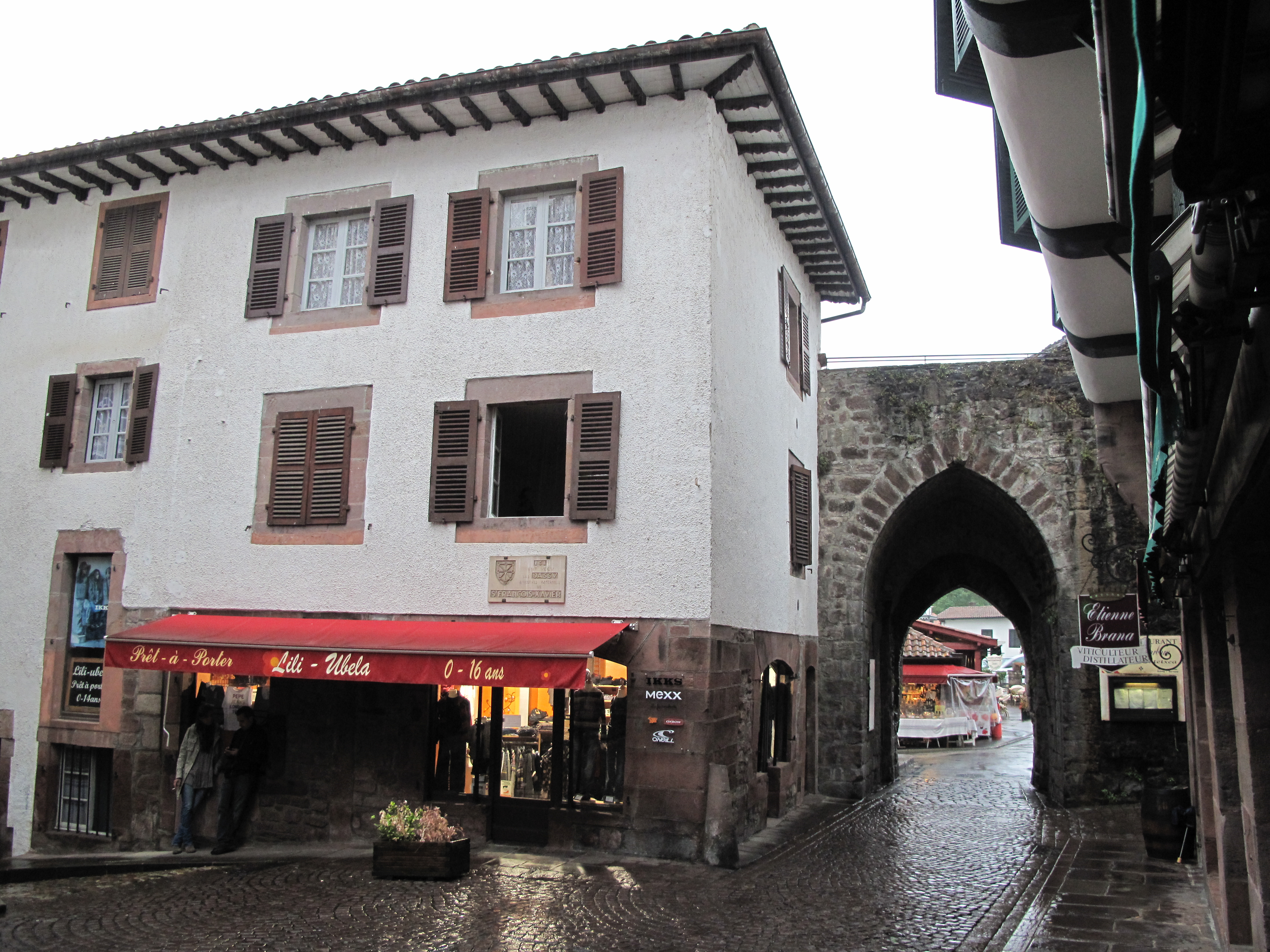 Gate in Saint-Jean-Pied-de-Port, Pyrénées-Atlantiques, France